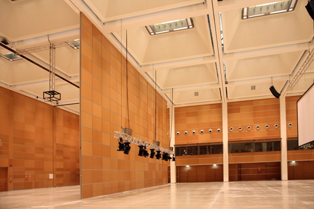 Rimini Technology Convention Centre